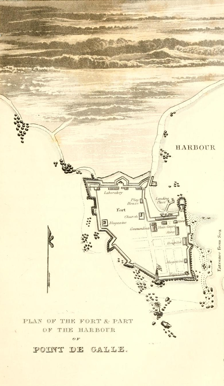 Point de Galle, plan (1796)